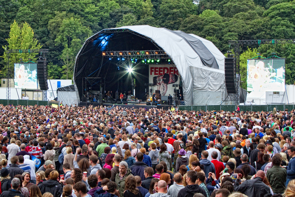 Crowd are entertained by an energetic and well-received performance from Feeder on the Saturday afternoon of Bingley Music Live: 2011. The original photograph is available online in full resolution at this address.